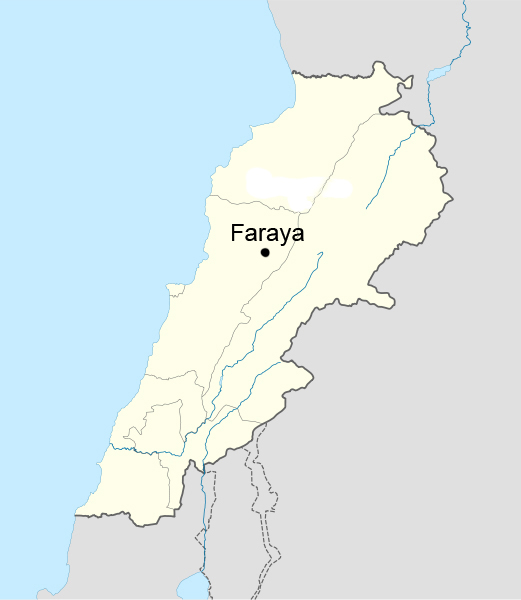 The location of Faraya